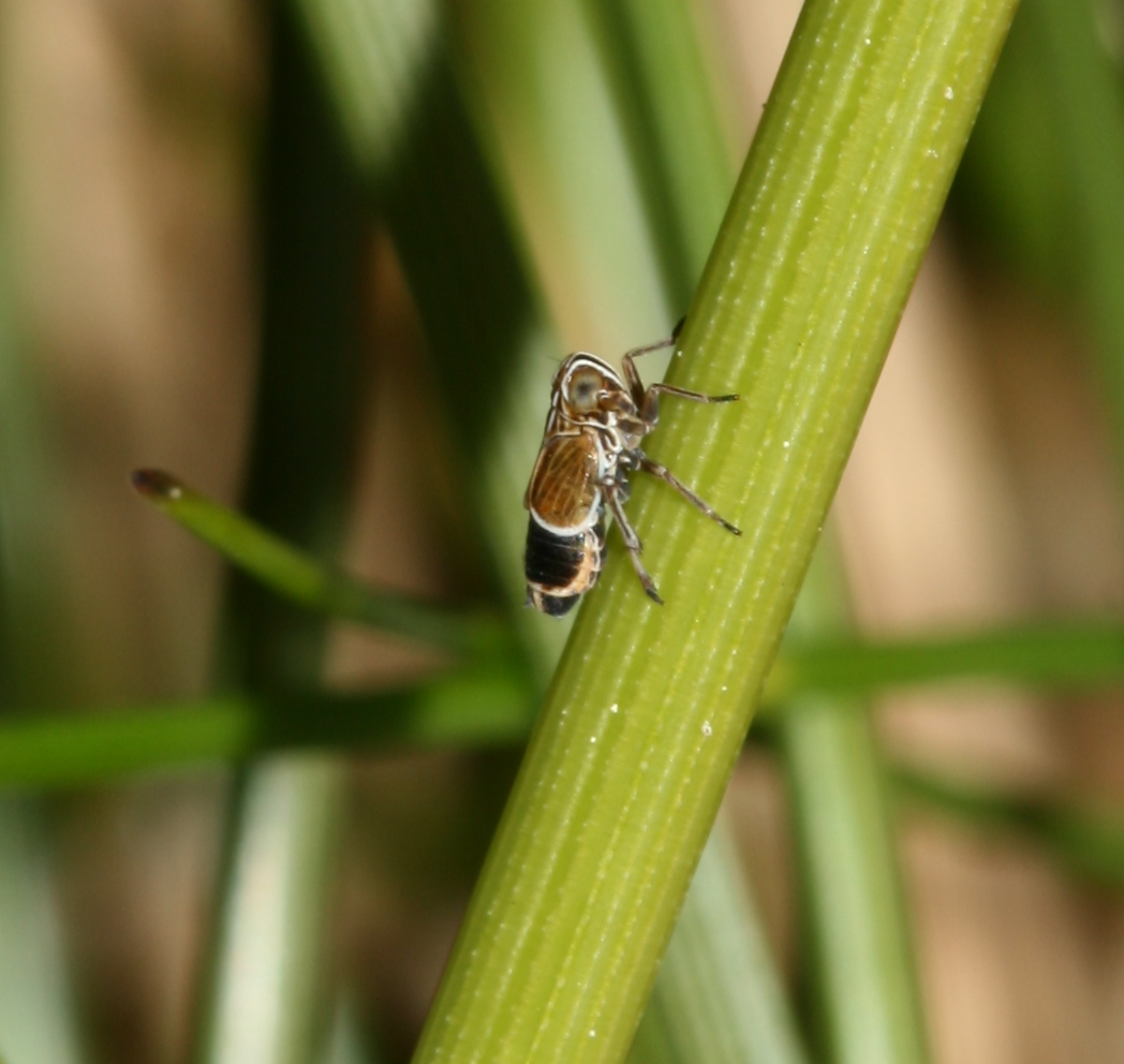 On Bog-cotton. Red Moss of Balerno, Midlothian, Scotland